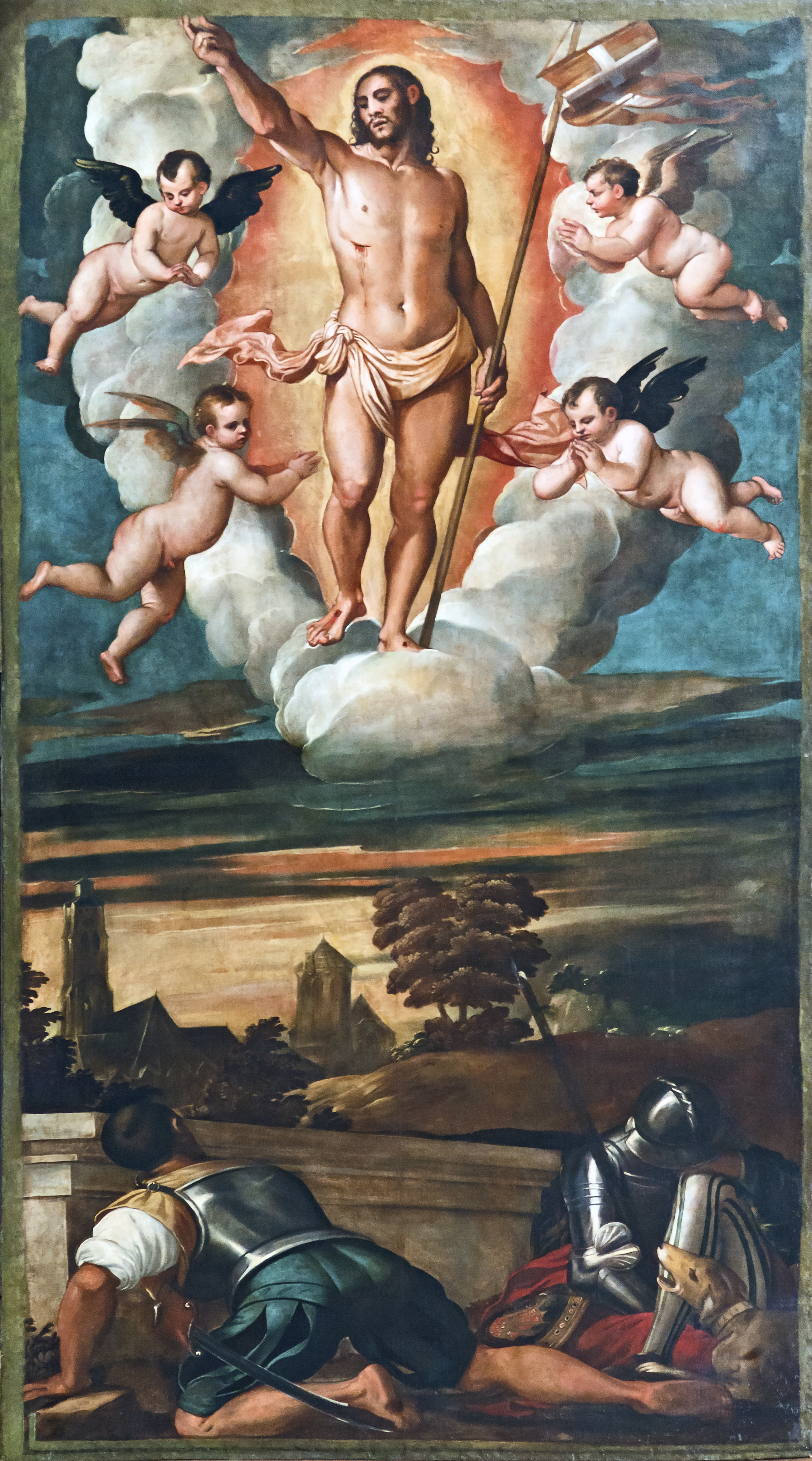 San Salvatore, Venice - Organ - Doors of the organ by Francesco Vecellio - Resurrection